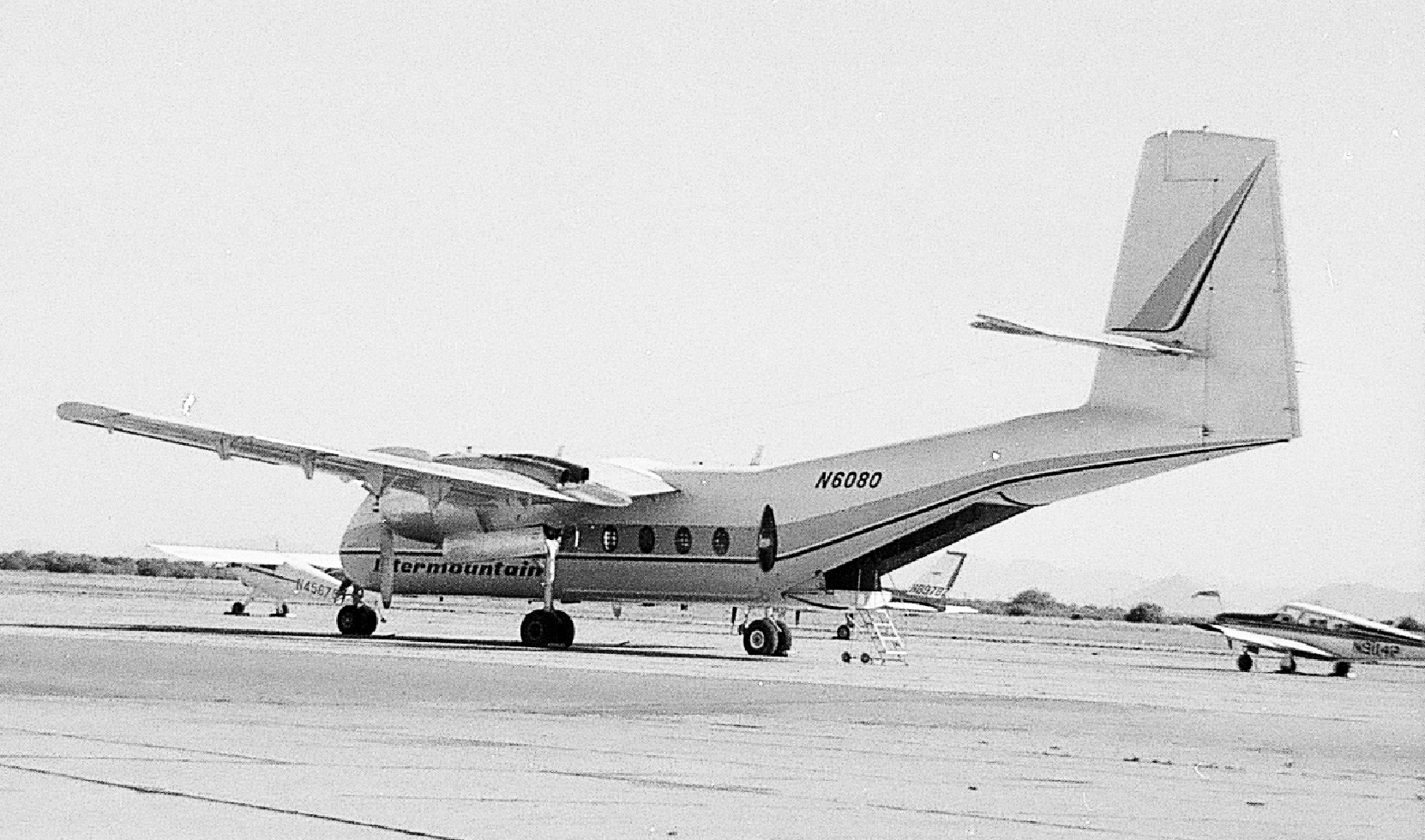 De Havilland Canada DHC-4 Buffalo N6080 (Intermountain), Marana 1973; ex CF-LAN